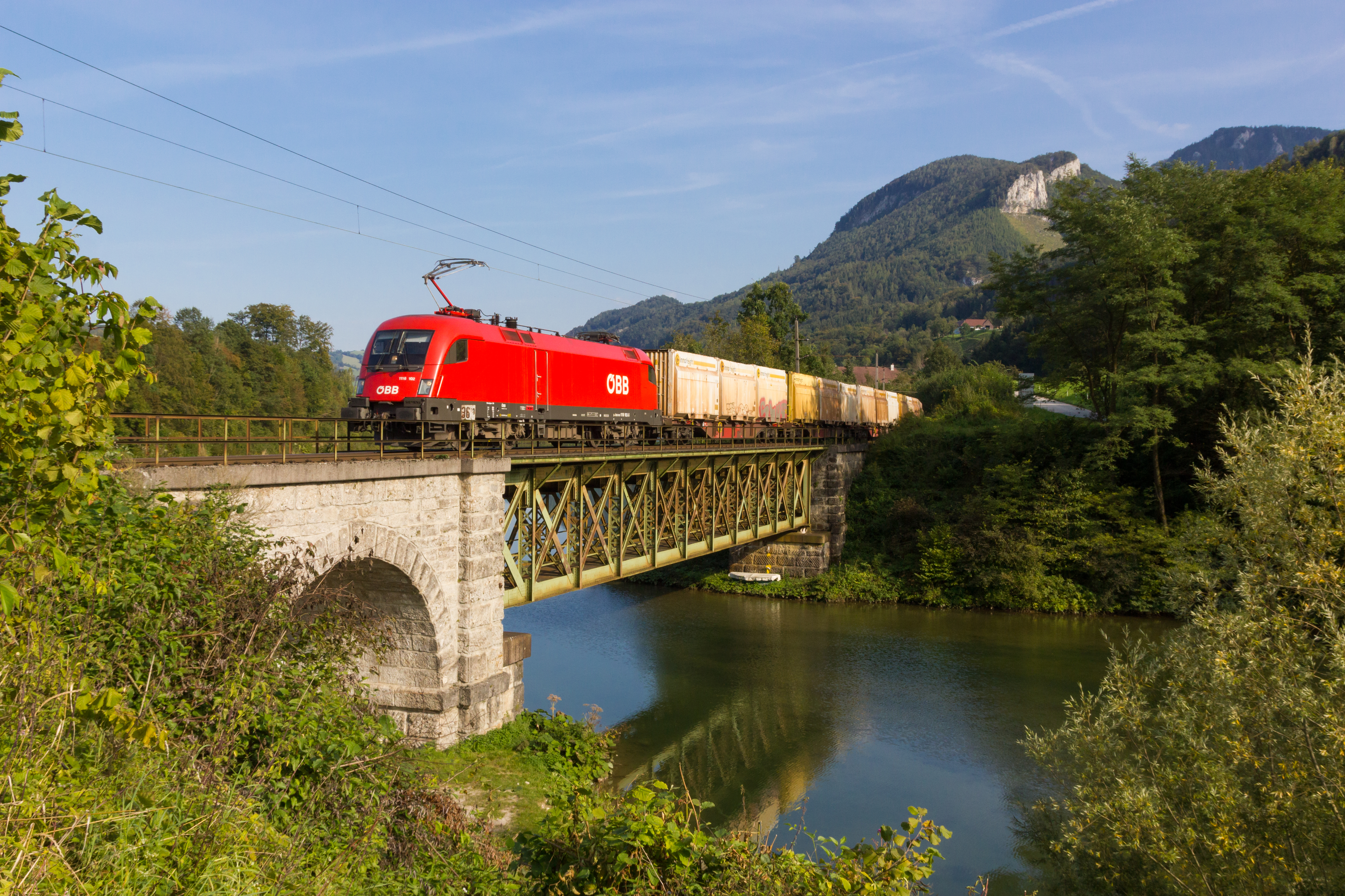 ÖBB 1116-102 driving northwards over the Trattenbach-bridge with a train consisting of wood containers.